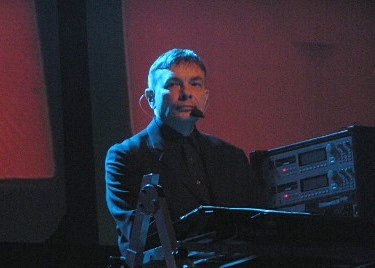 Karl Bartos during a concert in Wiesbaden, Germany, March 2005